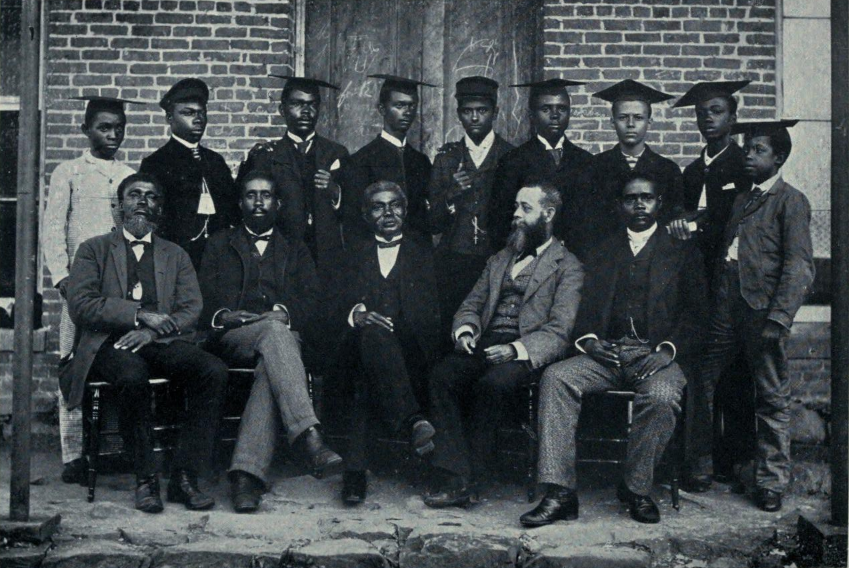 Liberia College Students and Teaching Staff (1900)